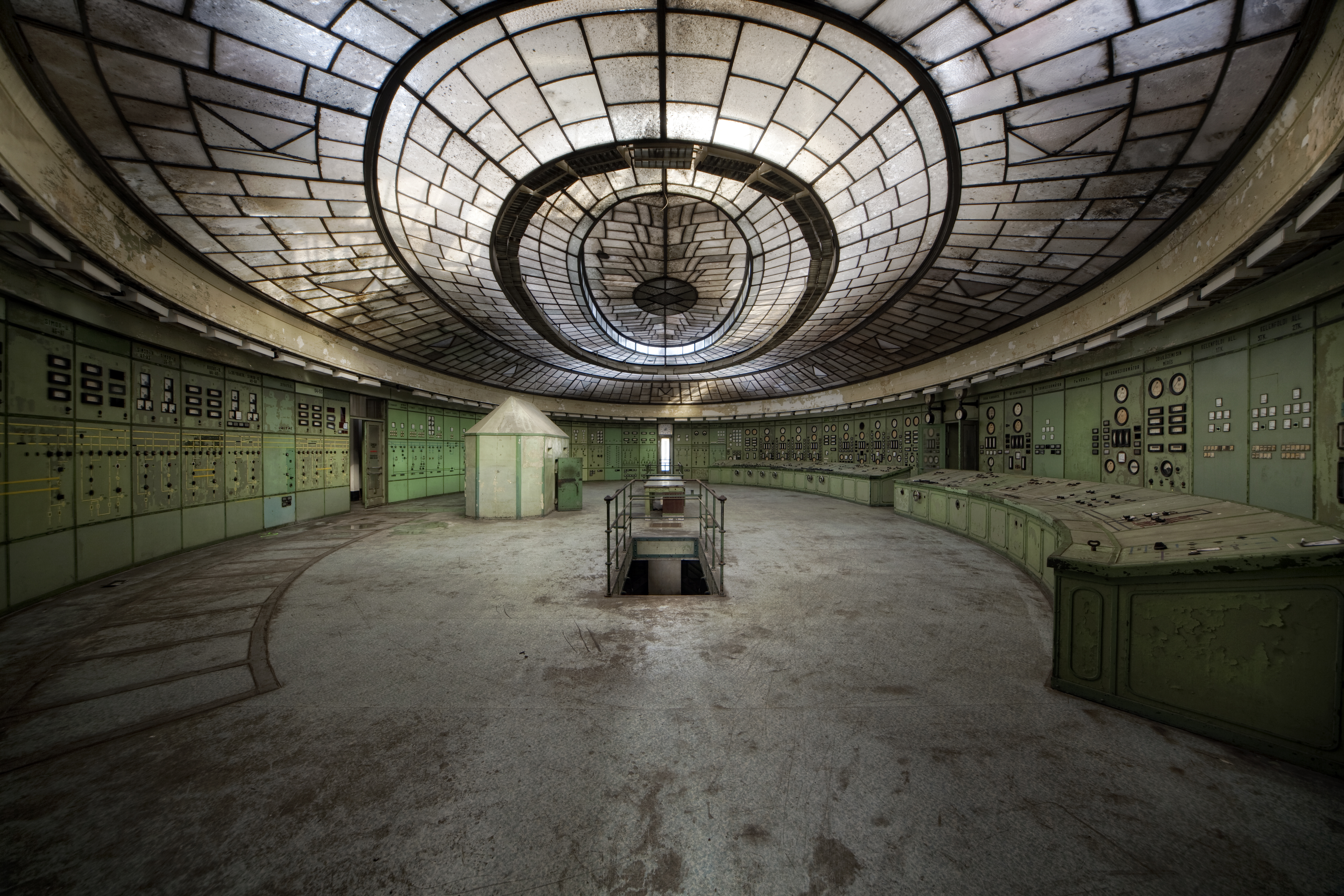 Power Plant Kelenföld. The amazing control room in an abandoned power plant. It was build between 1927 and 1929. The little house inside the control room is actually a bunker where the workers could hide during bombing raids. The power plant became the largest one in the country and the most modern in Central Europe before it was abandoned in 2006.